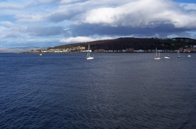 Rothesay in daylight. A beautifully calm evening that is typical at this time of year.